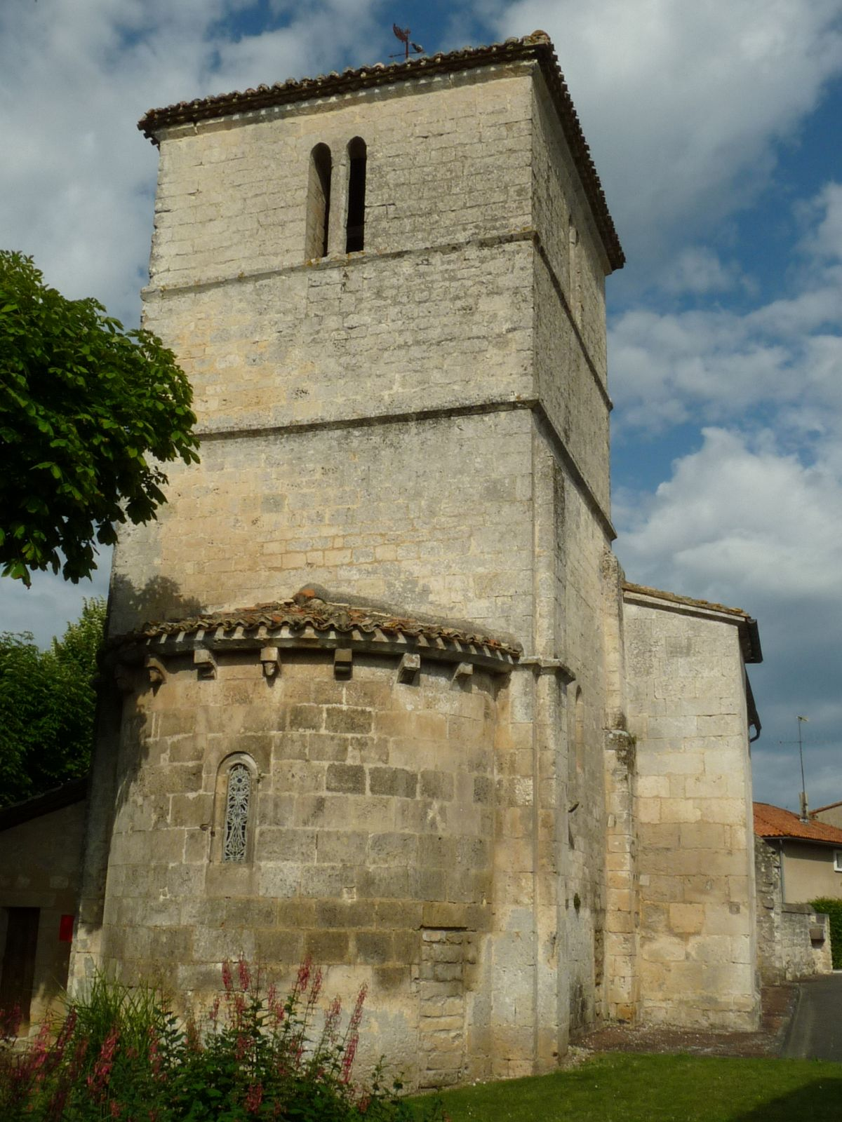 church of Puymoyen, Charente, SW France